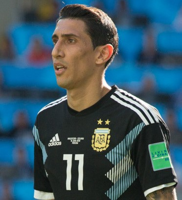 Ángel Di María with Argentina against Iceland in the 2018 FIFA World Cup